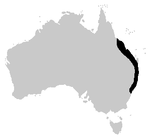 Distribution of the Stoney Creek Frog, Litoria wilcoxi.